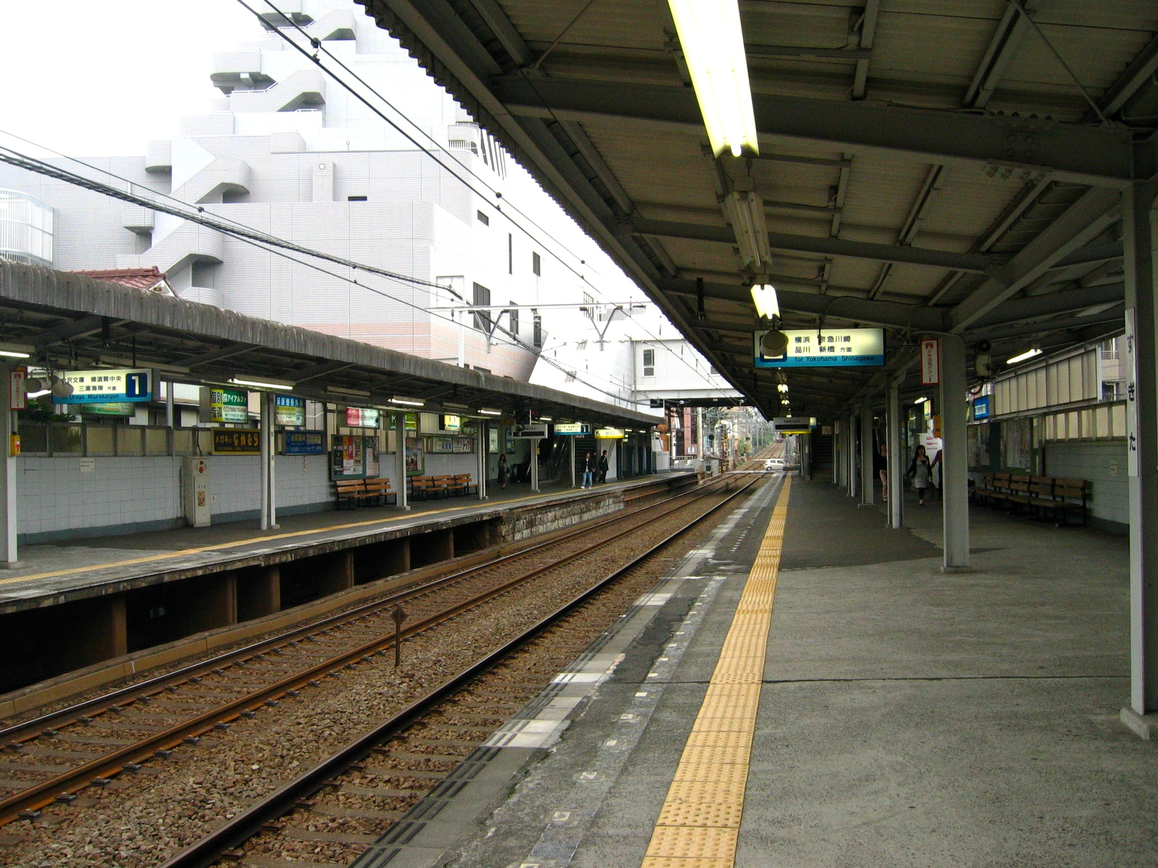 Keikyu Main Line, Sugita Station platform (Kanagawa, Japan)